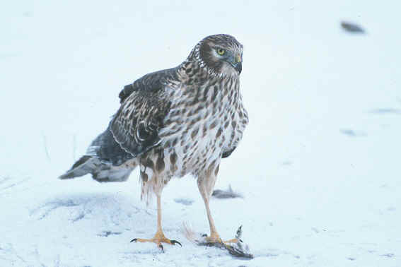 Female Northern Harrier (Circus hudsonius)